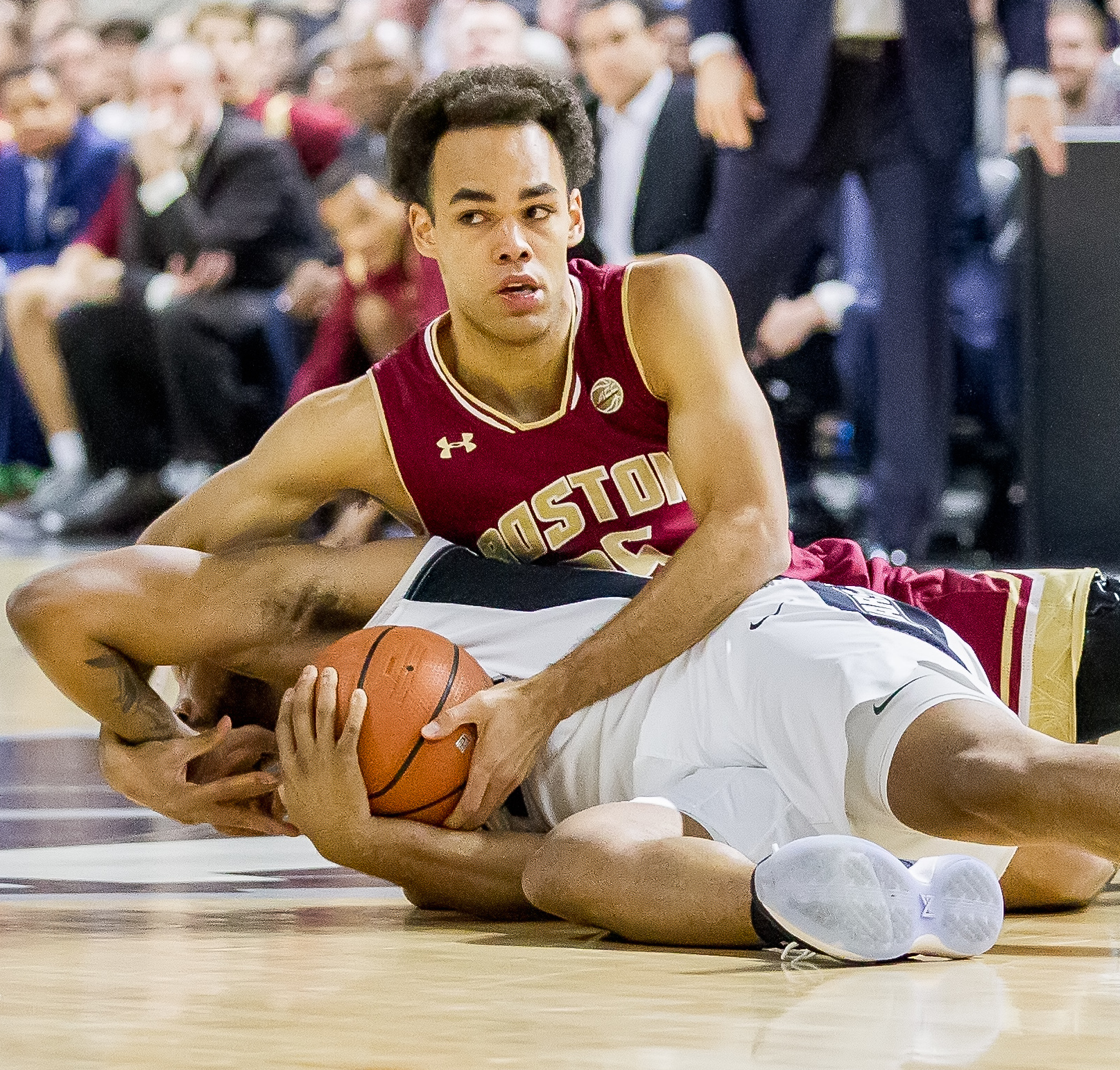 November 25, 2017. The Dunkin' Donuts Center, Providence, RI. Photo: ©KJ Sports Pics